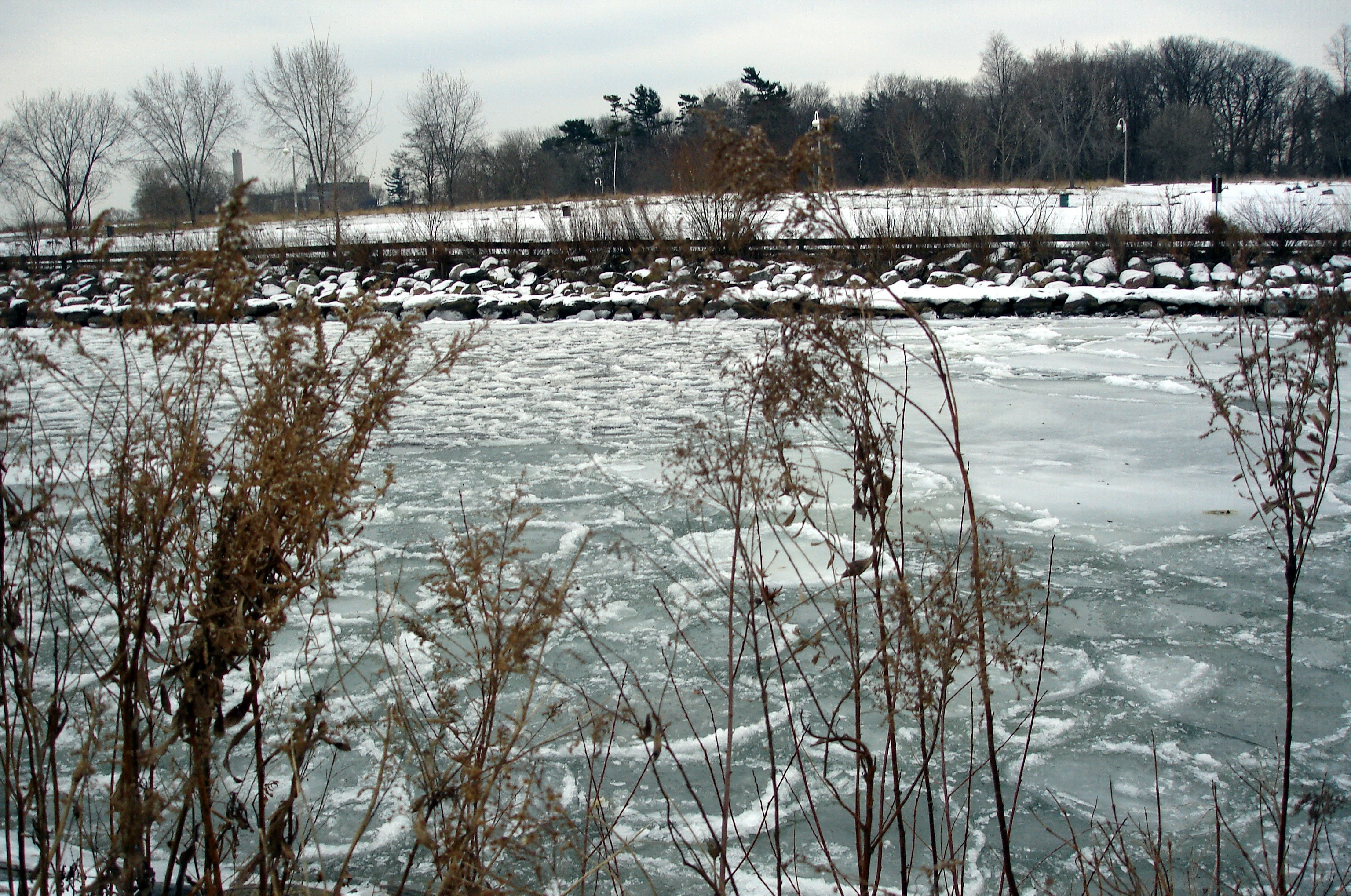 Thawing Etobicoke Creek from Marie Curtis Park in Etobicoke, Ontario